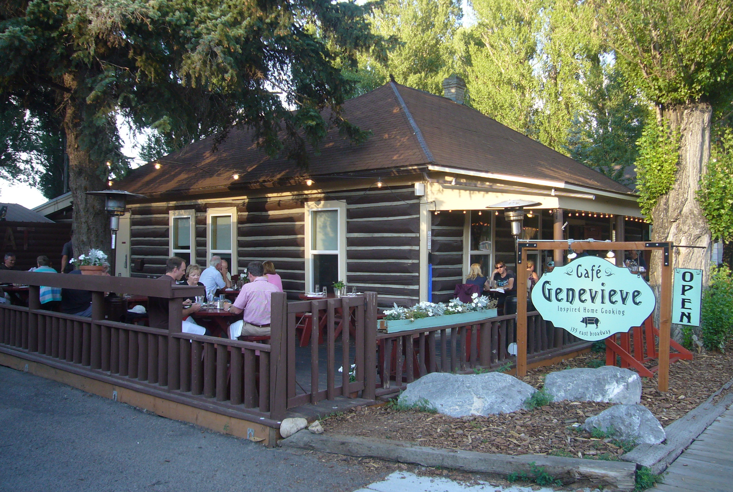 Van Vleck House (exterior), Jackson, Wyoming, USA.